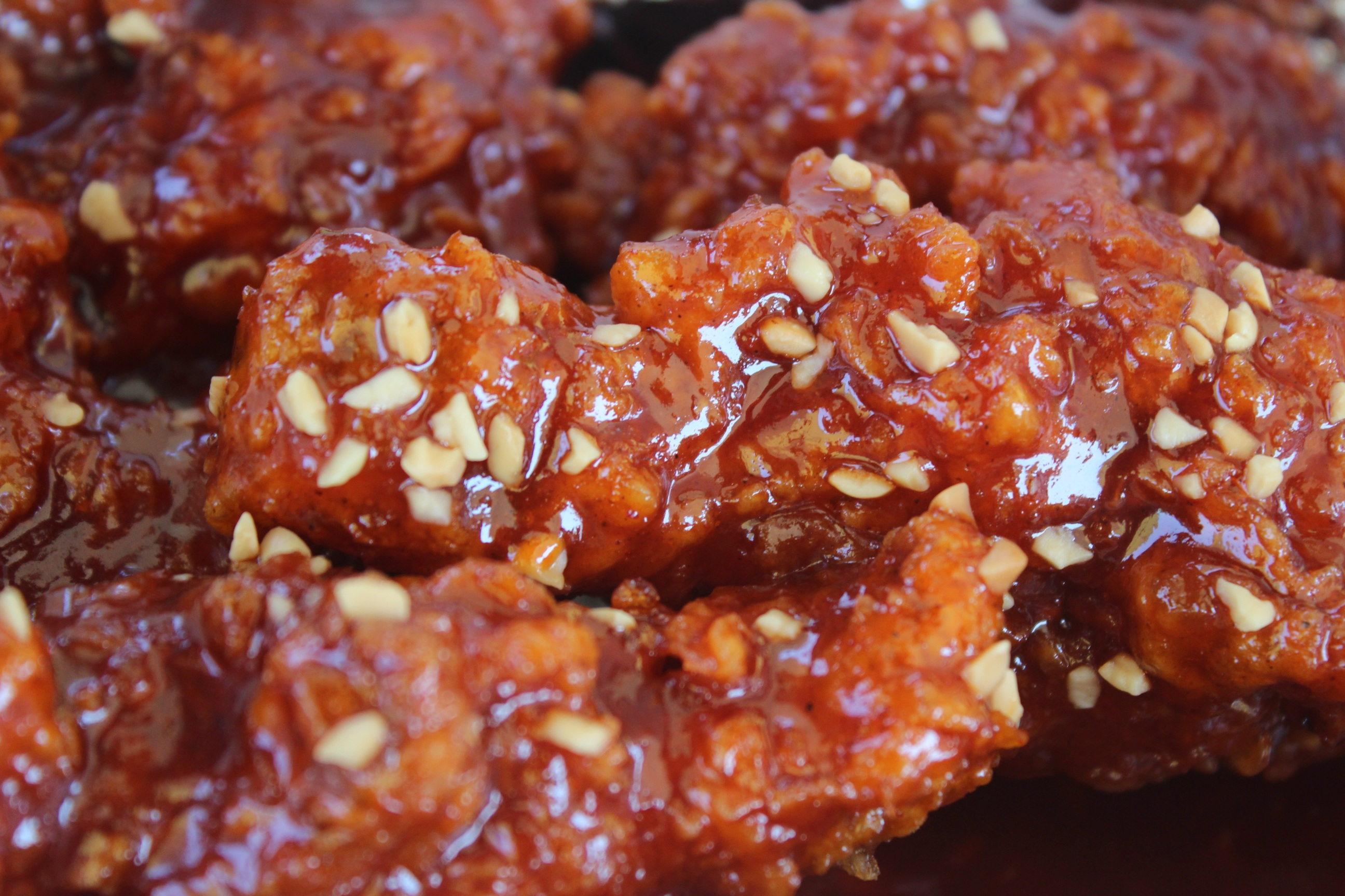 yangnyeom-chicken (fried chicken with spicy sauce)